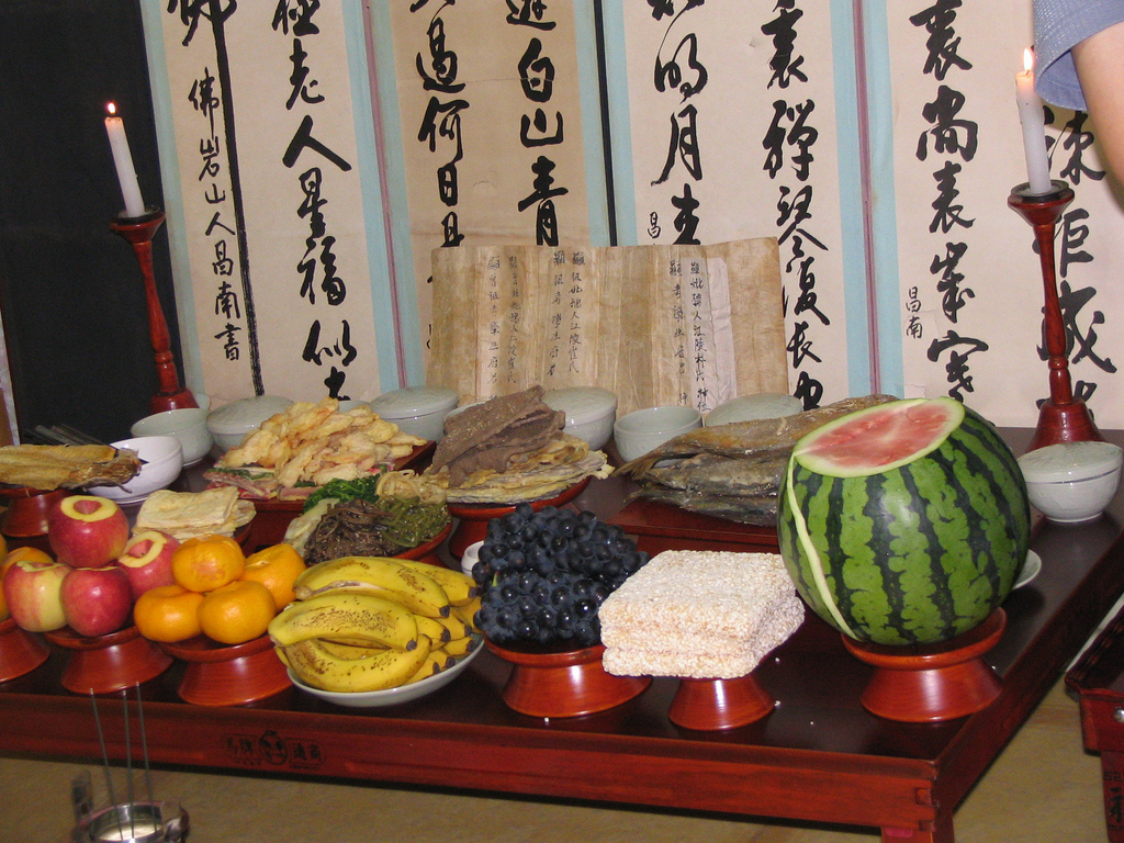 Jesa, a type of Korean ancestor veneration held on Chuseok (Korean mid-autumn festival).